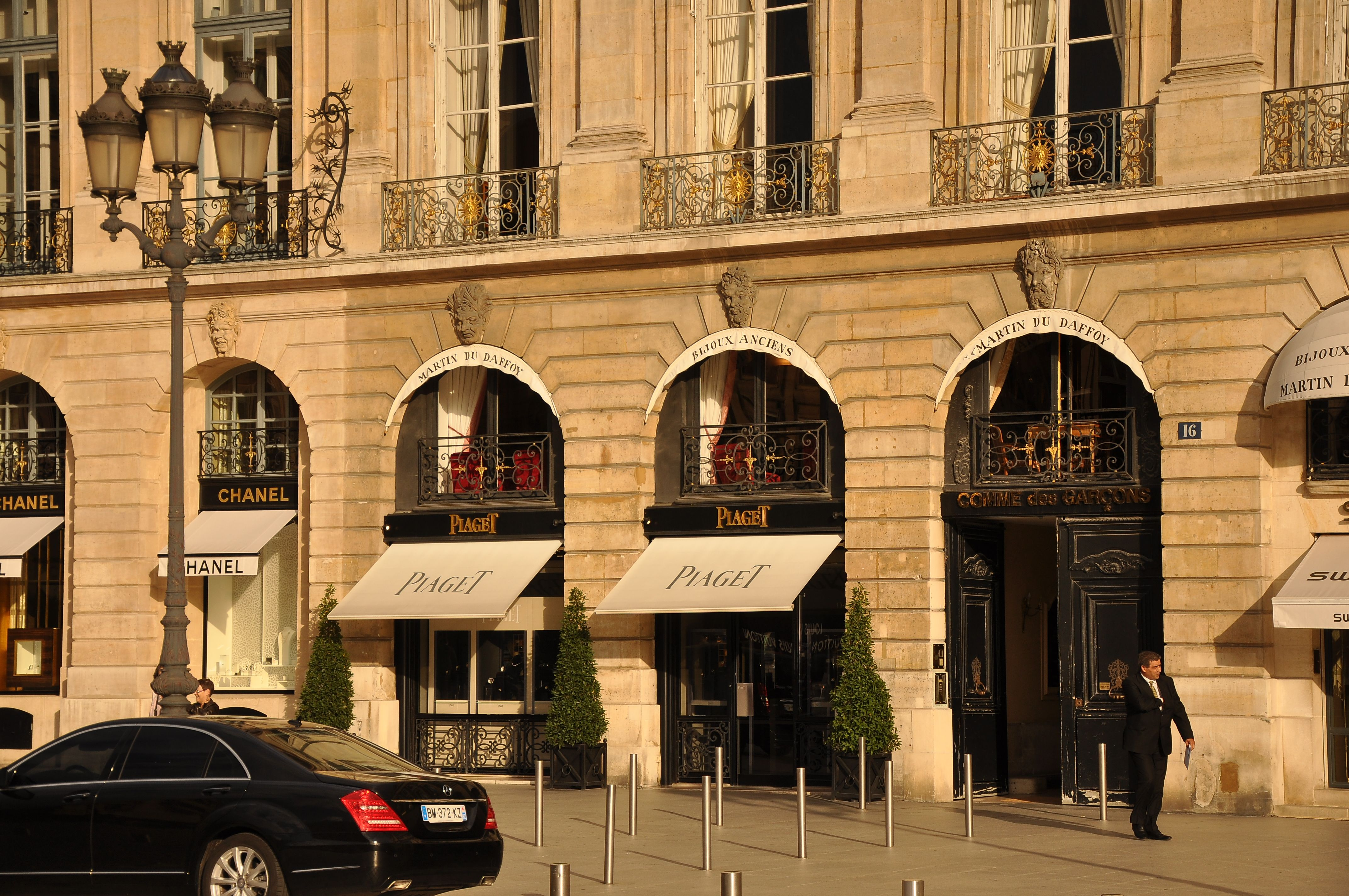 Hôtel Moufle at 16 place Vendôme in Paris, France